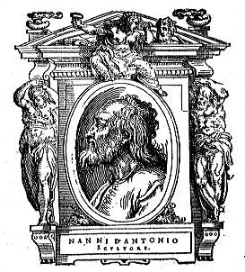 Illustratio from "Le Vite" by Giorgio Vasari, edition of 1568. For the artist portrayed see filename